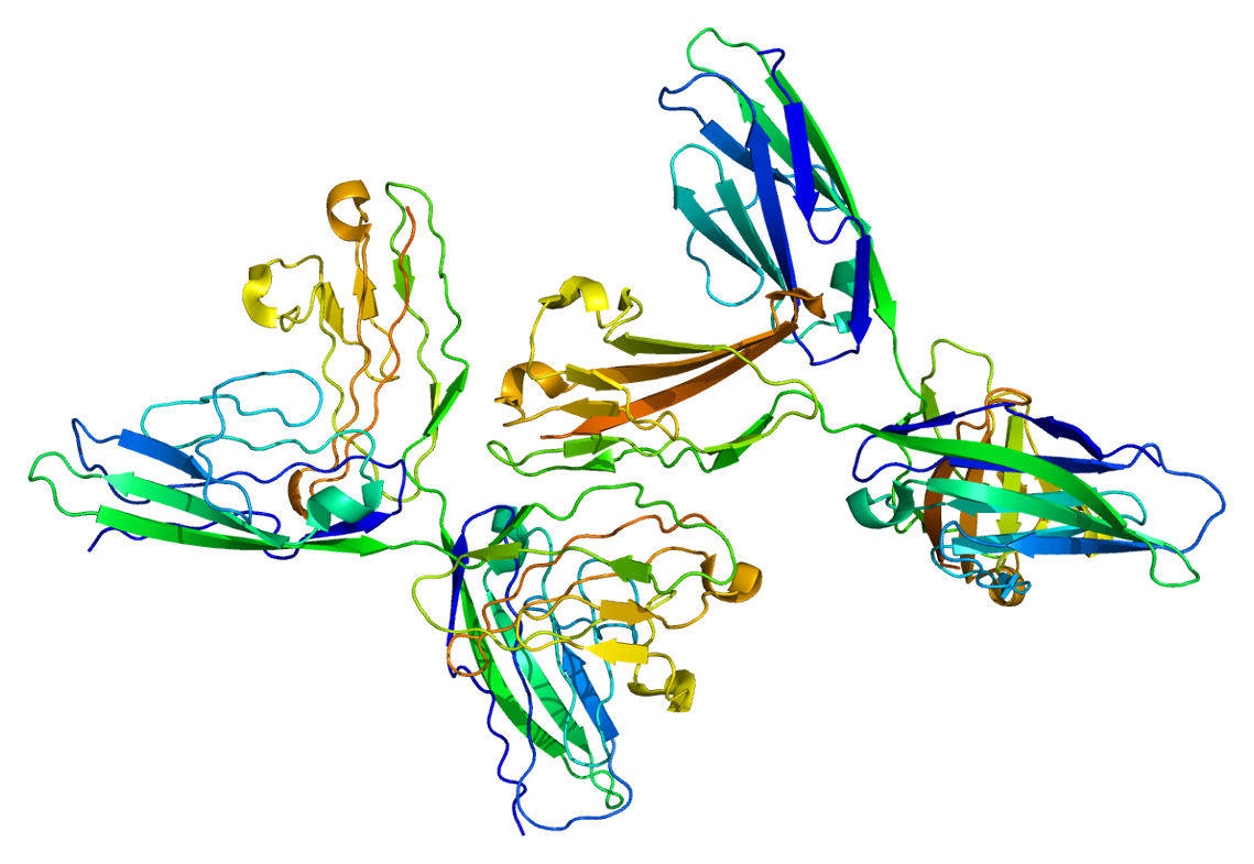 Structure of the NCAM1 protein. Based on PyMOL rendering of PDB 1epf.